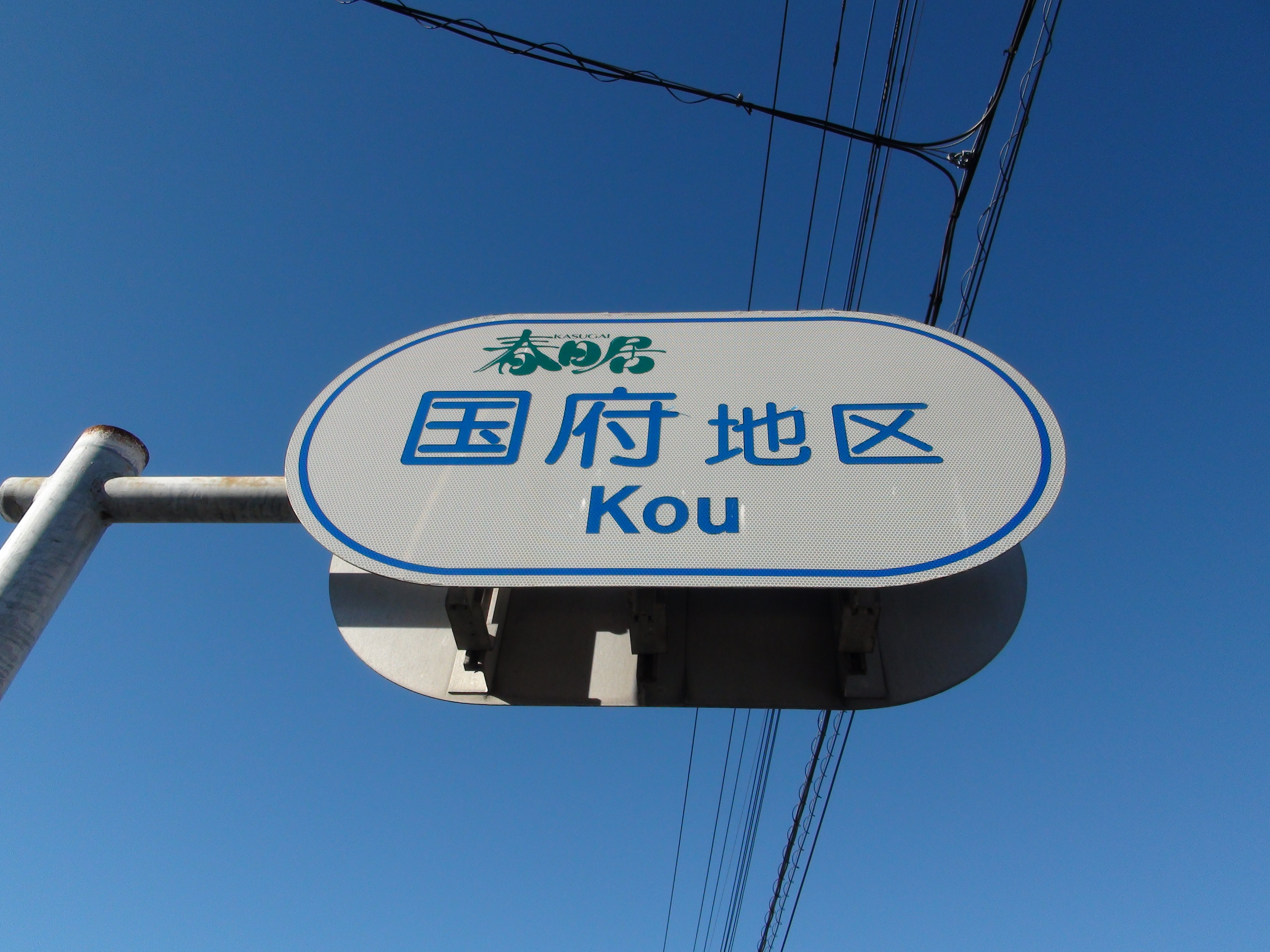 Kou Kasugai Fuefuki City. Signboard place name